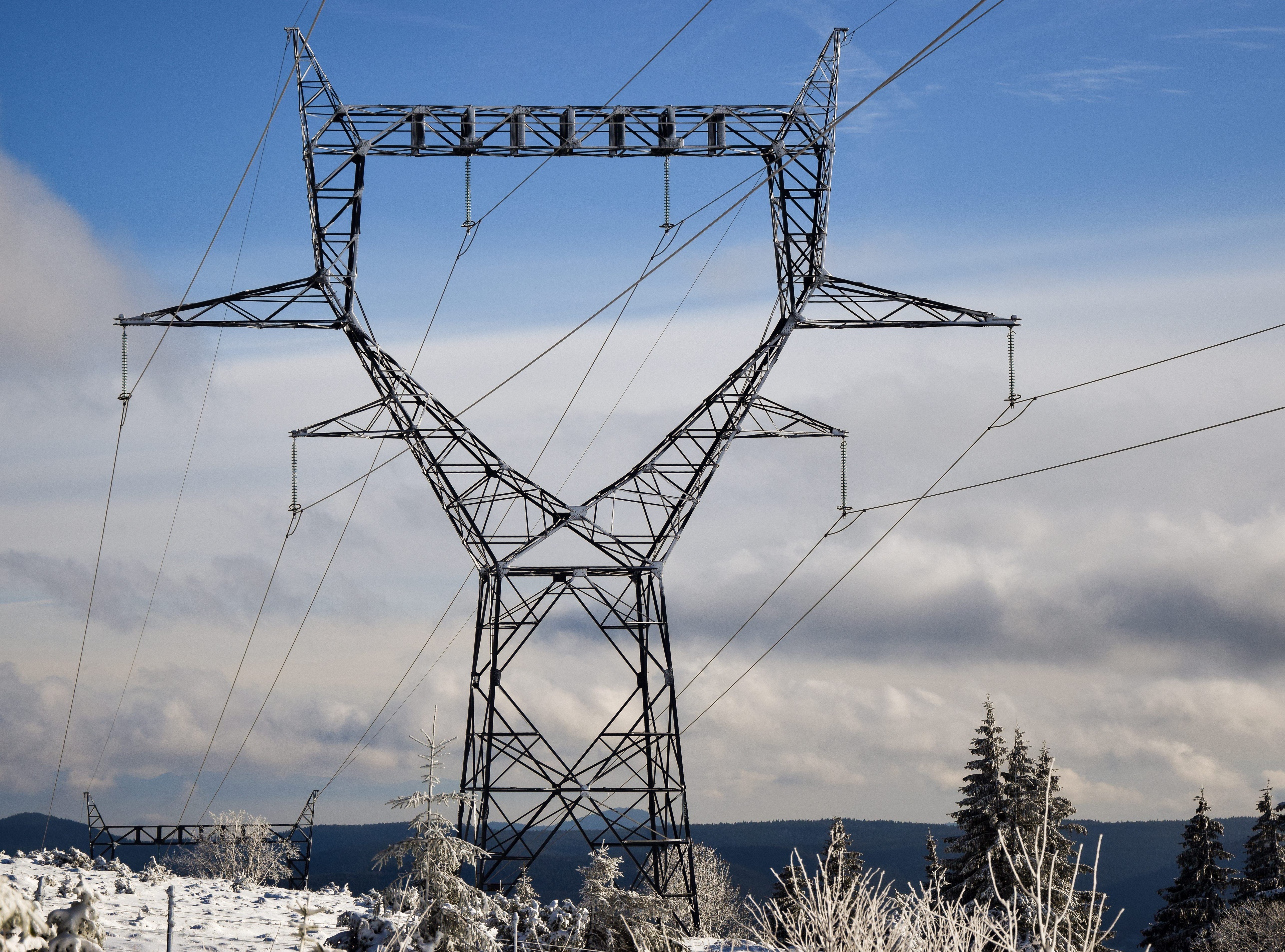 Transmission tower in the Vosges mountains, France